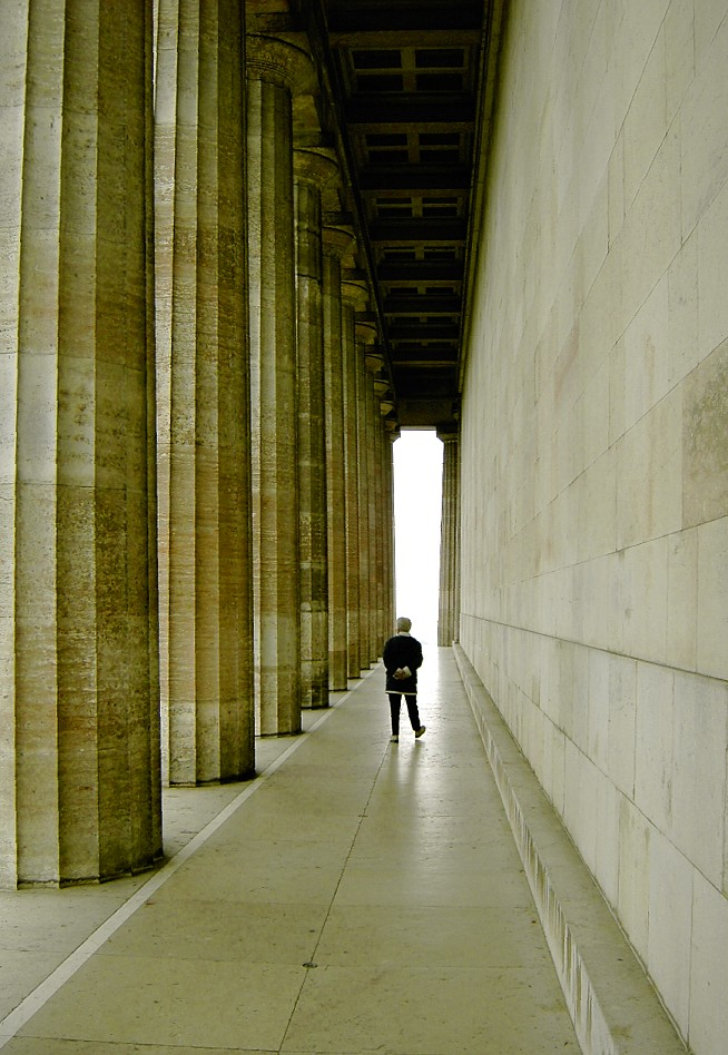 Columns of Walhalla at Donaustauf Germany